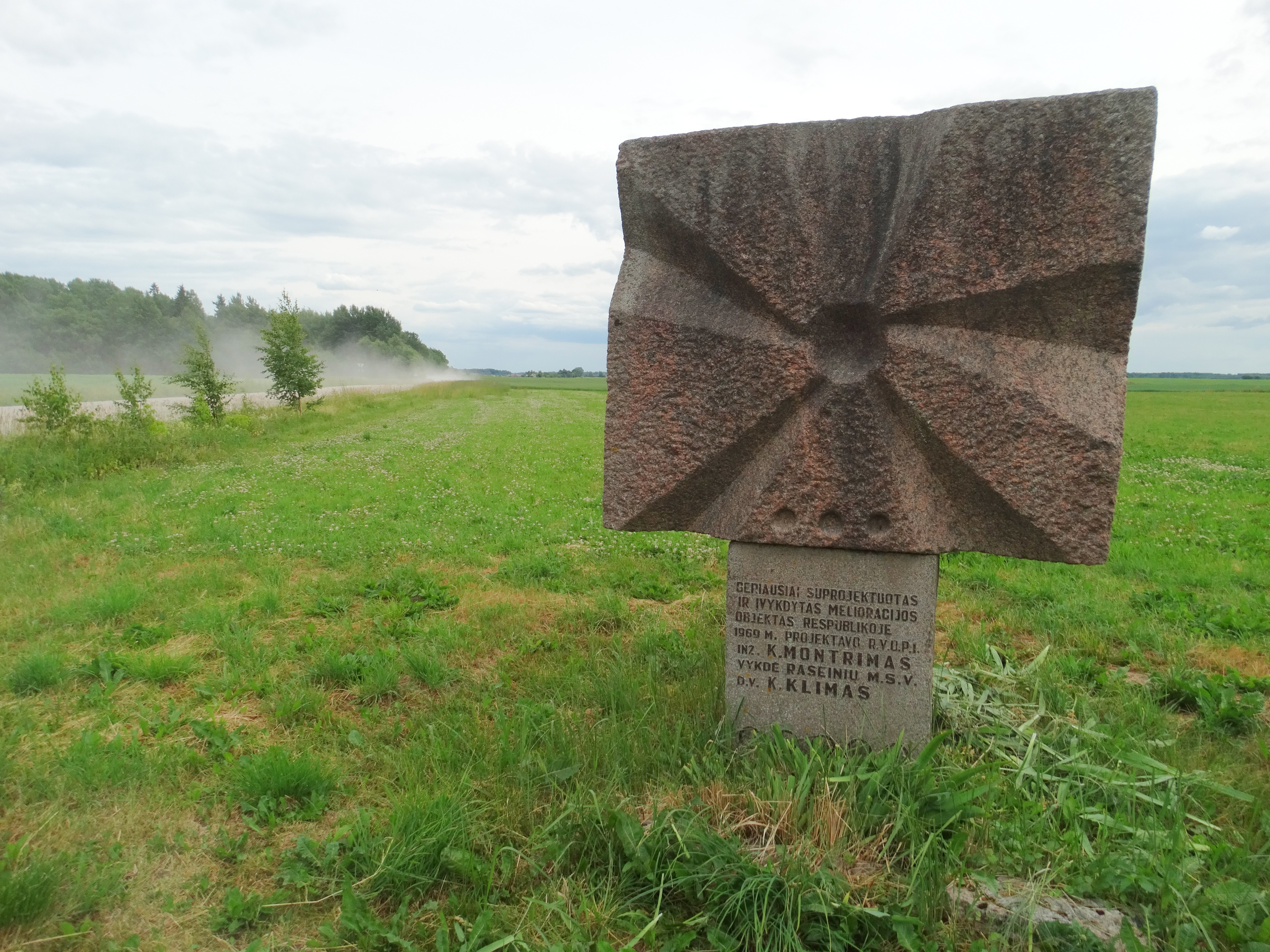 Didžiuliai, Raseiniai district, Lithuania